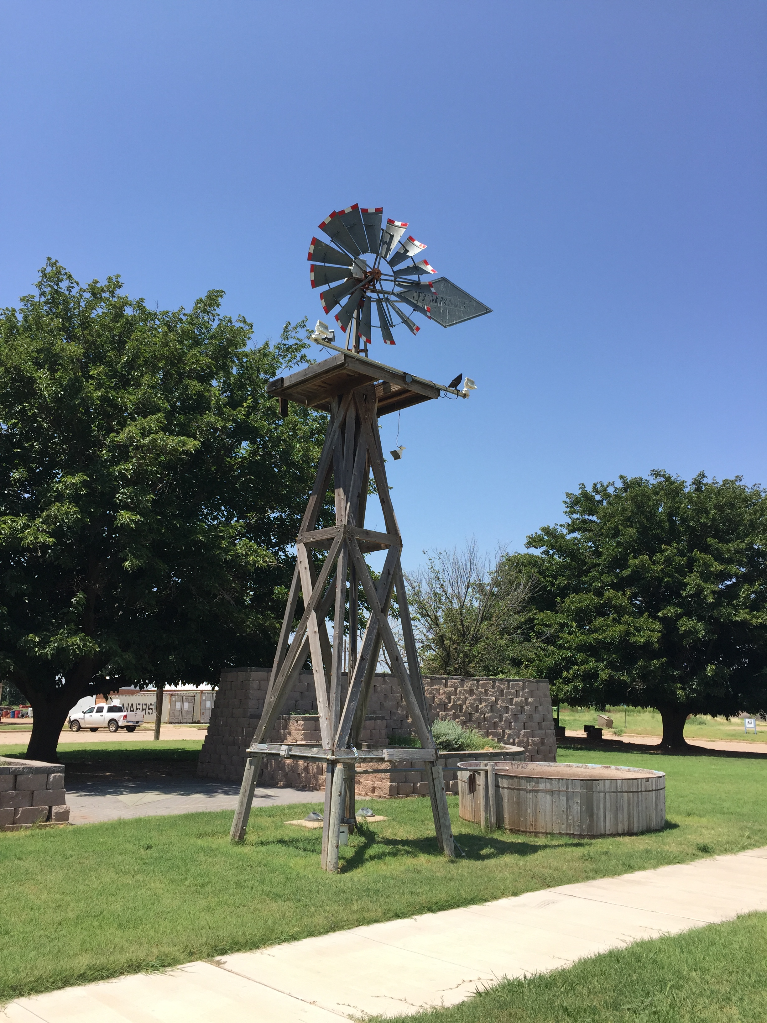 Photo of Dempster windmill at Estelline, TX